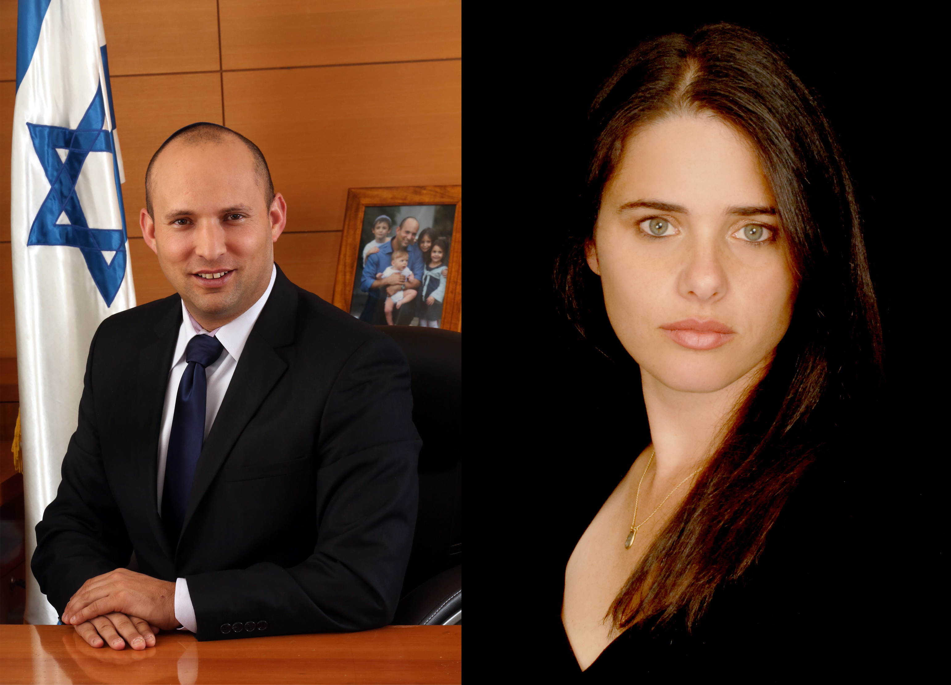 Ayelet Shaked (right) and Naftali Bennett (left) - HaYamin HeHadash (New Right) party, Israel